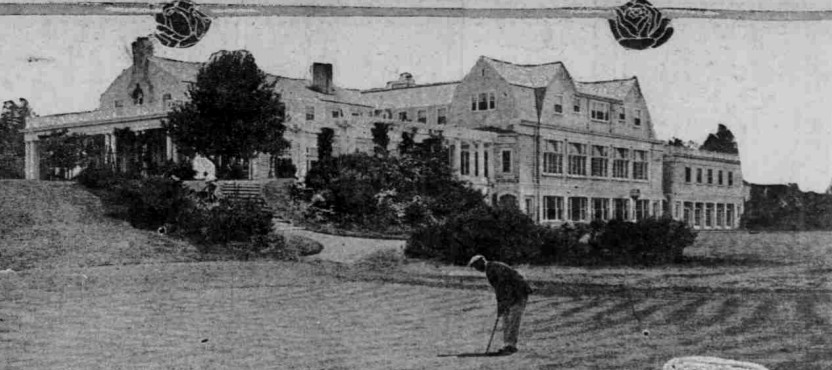 The 1919 Oregon State Gold Championship at Waverly Country Club in Portland, Oregon.